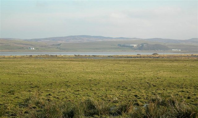 Gruinart Fields Low-lying fields along the western shore of Loch Gruinart. In the background, on the right, is Craigens Farm.